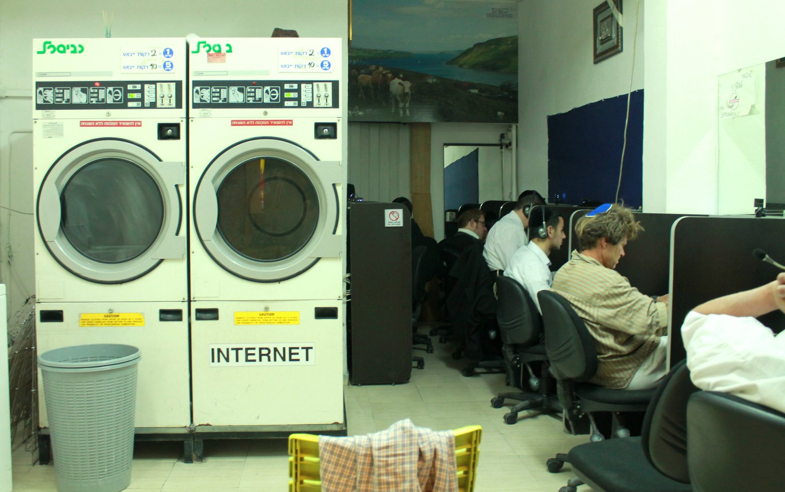 מכבסה נט